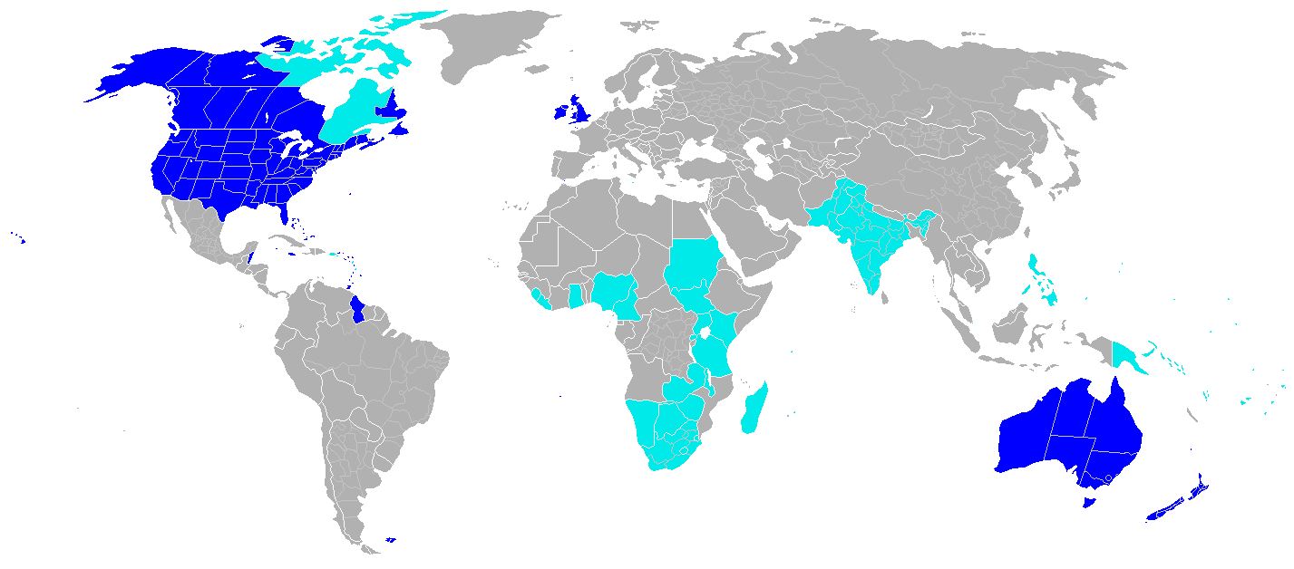 In dark blue, countries with significant concentrations of native speakers of English (in all of these countries English is an official or de facto language of administration); in light blue, other countries in which English is an official or important administrative language.